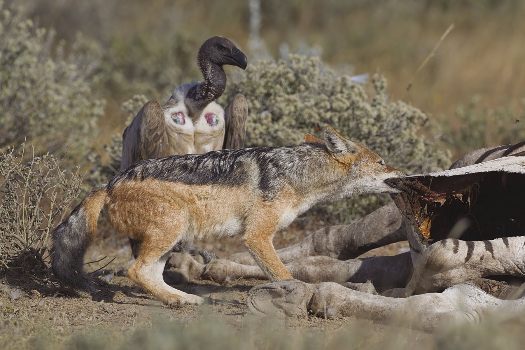 Black-backed jackal feeding on zebra carcass. White-backed vulture watches while waiting for its turn, Etosha